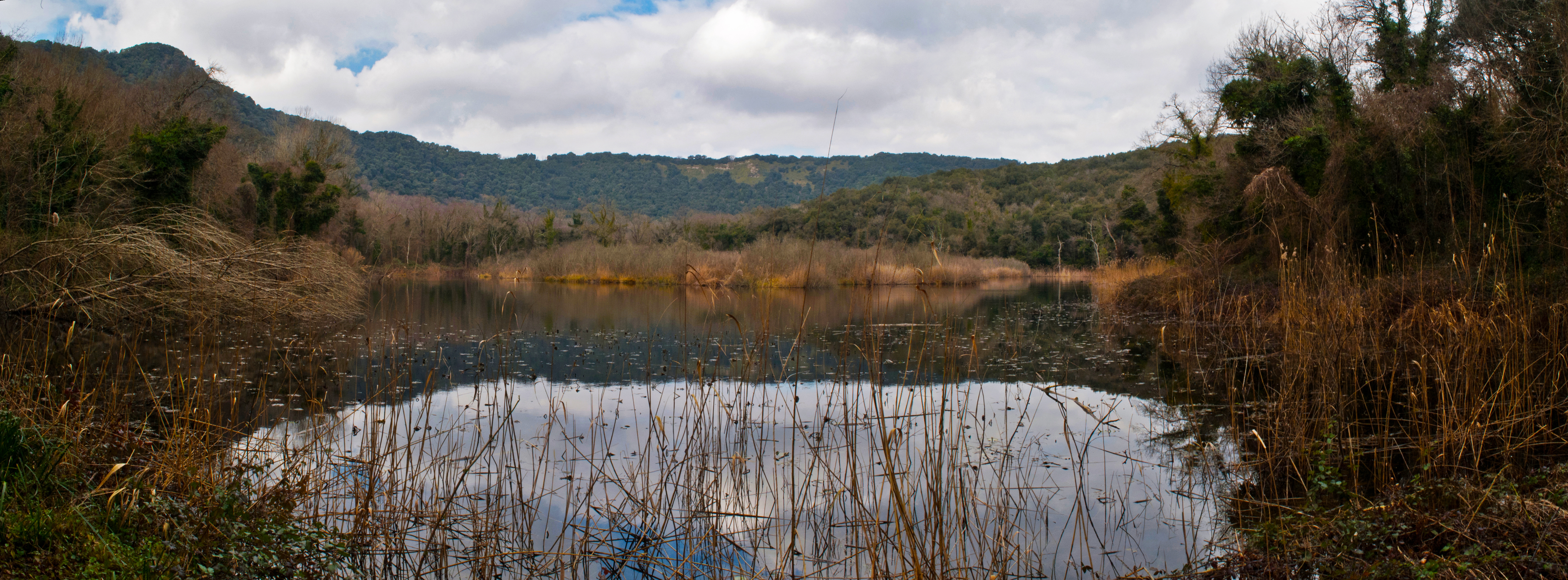 This is a photo of a monument which is part of cultural heritage of Italy. The authorisation for taking photos of this object was provided by the World Wide Fund for Nature Italy.